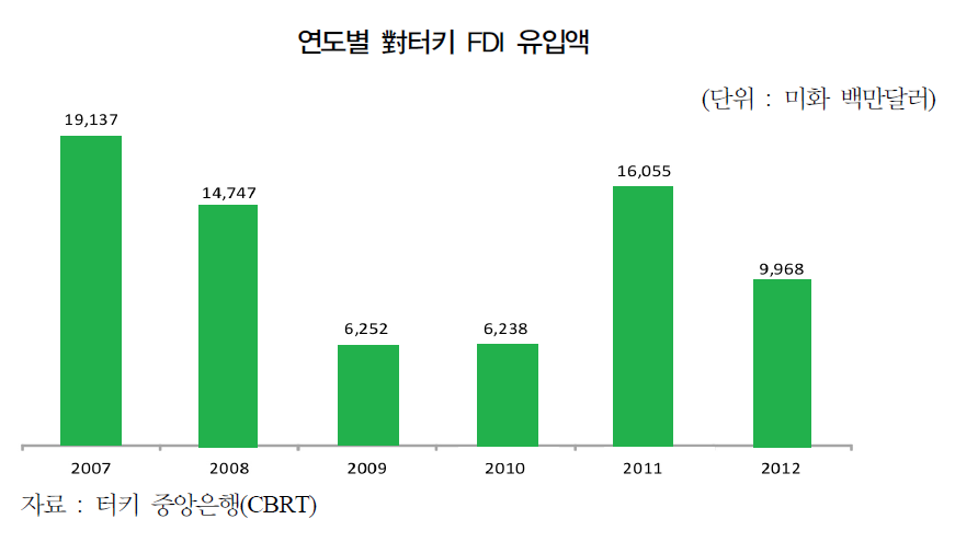 Turkey FDI